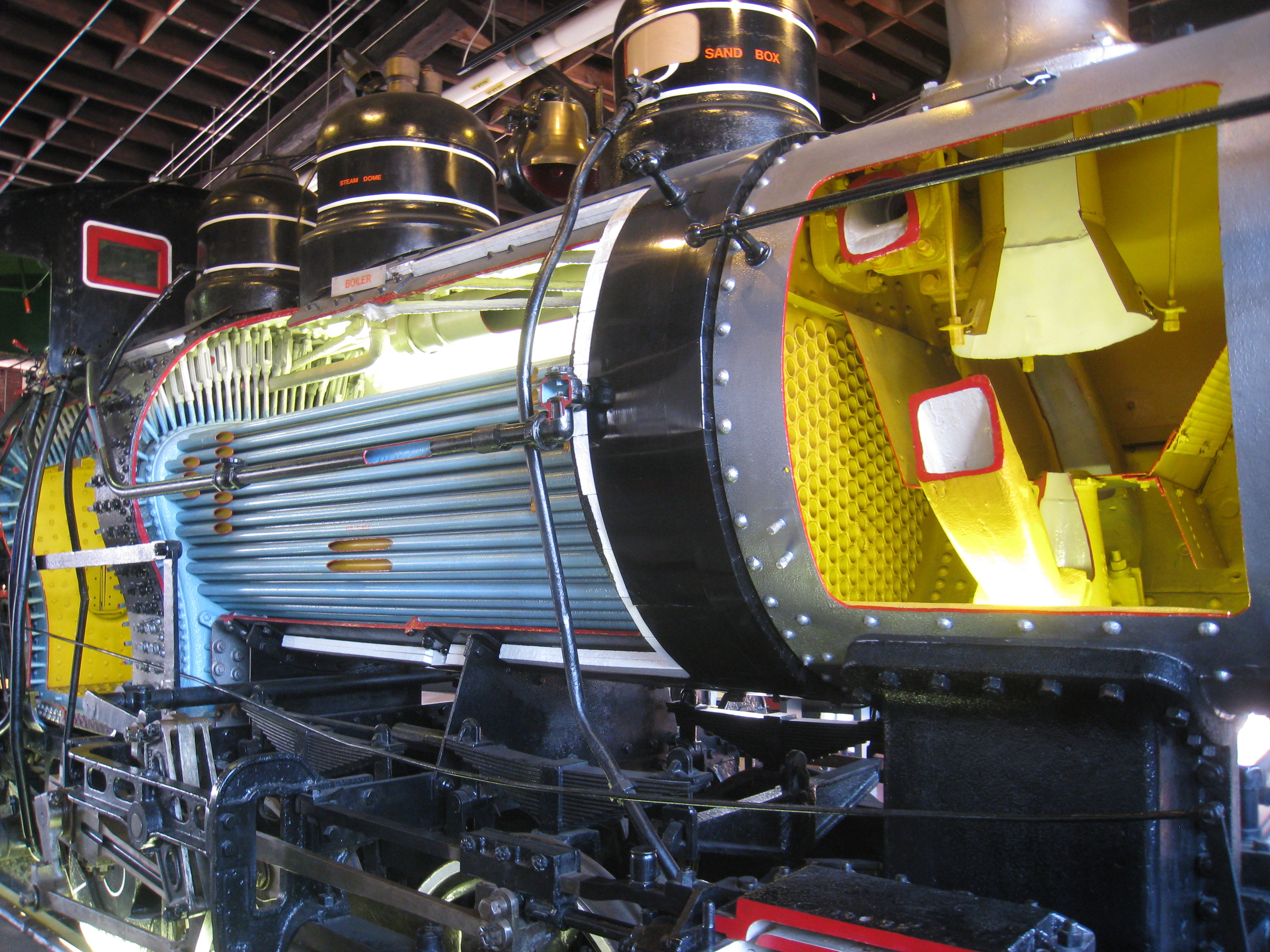 Steamtown National Historic Site, Scranton, Pennsylvania, USA.